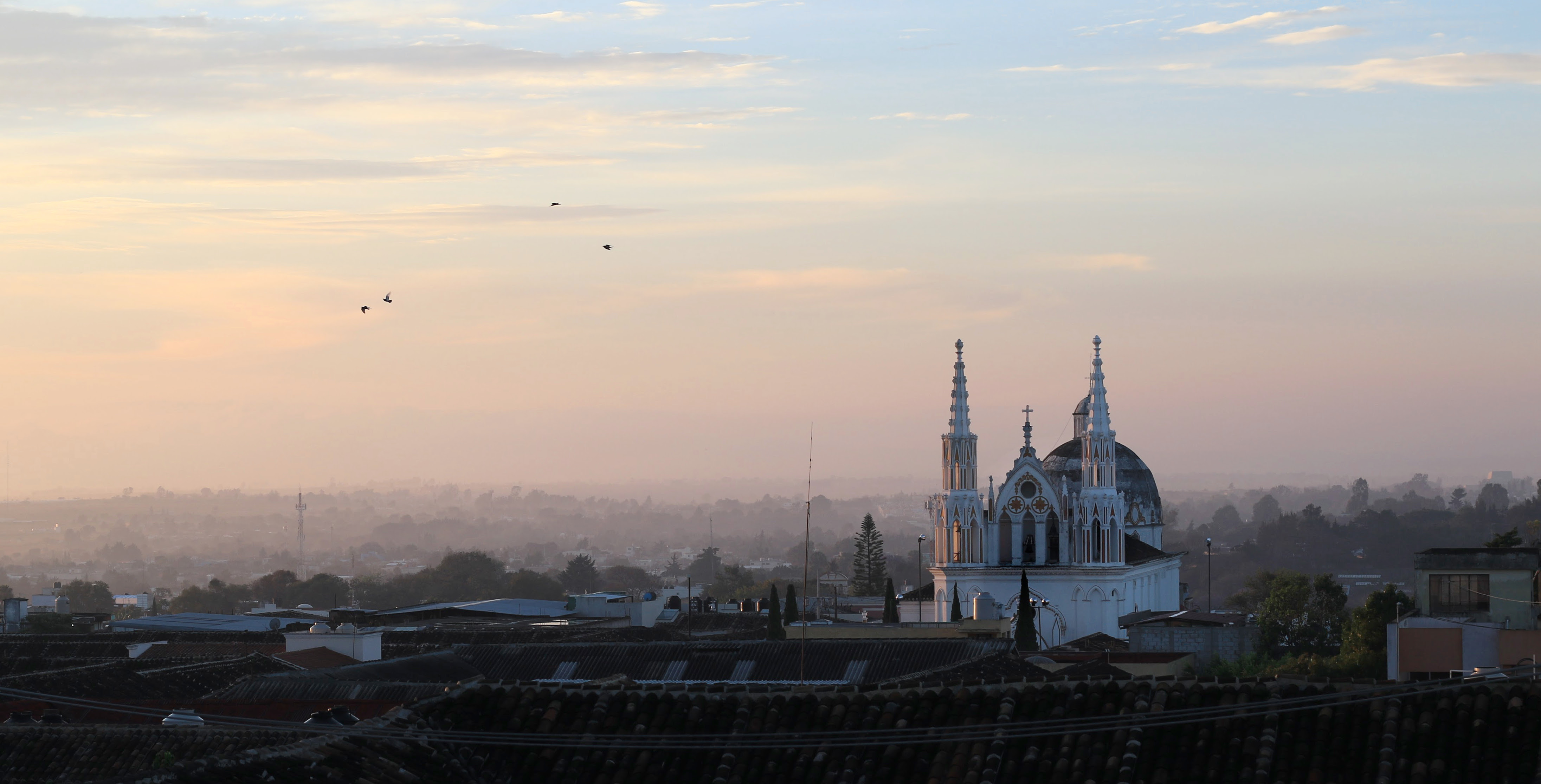 The Temple of San Jose, part of the historic center of Comitán de Dominguez in Chiapas, Mexico, juts above the surrounding buildings.